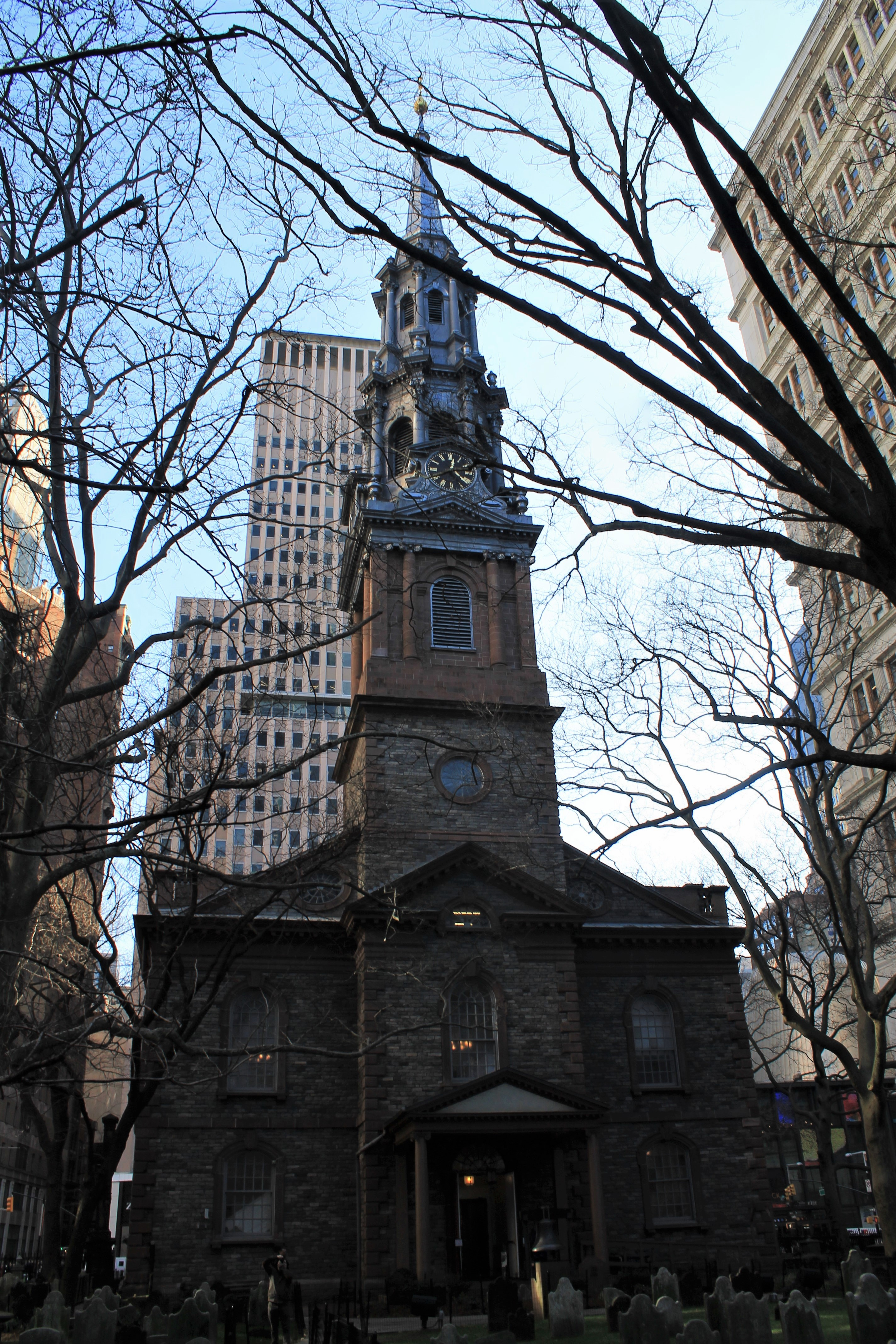 St. Paul's Chapel is one of New York City's oldest buildings still standing. Constructed in 1764, this building sits on 209 Broadway Street in Manhattan.